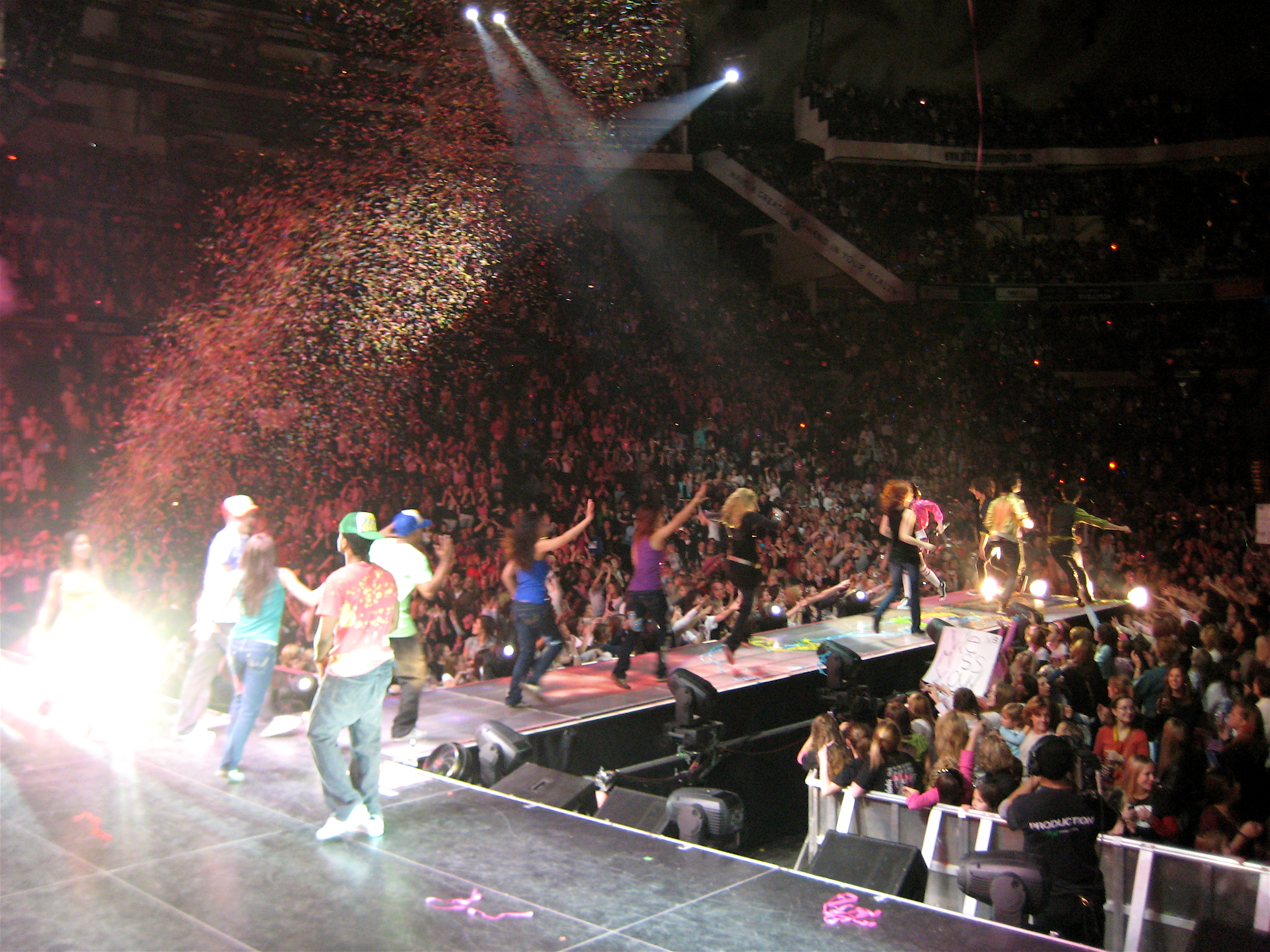 A teen singing.